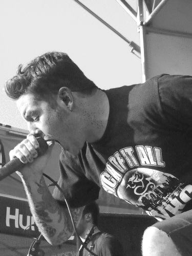 Senses Fail singer Buddy Neilson - Live in Concert